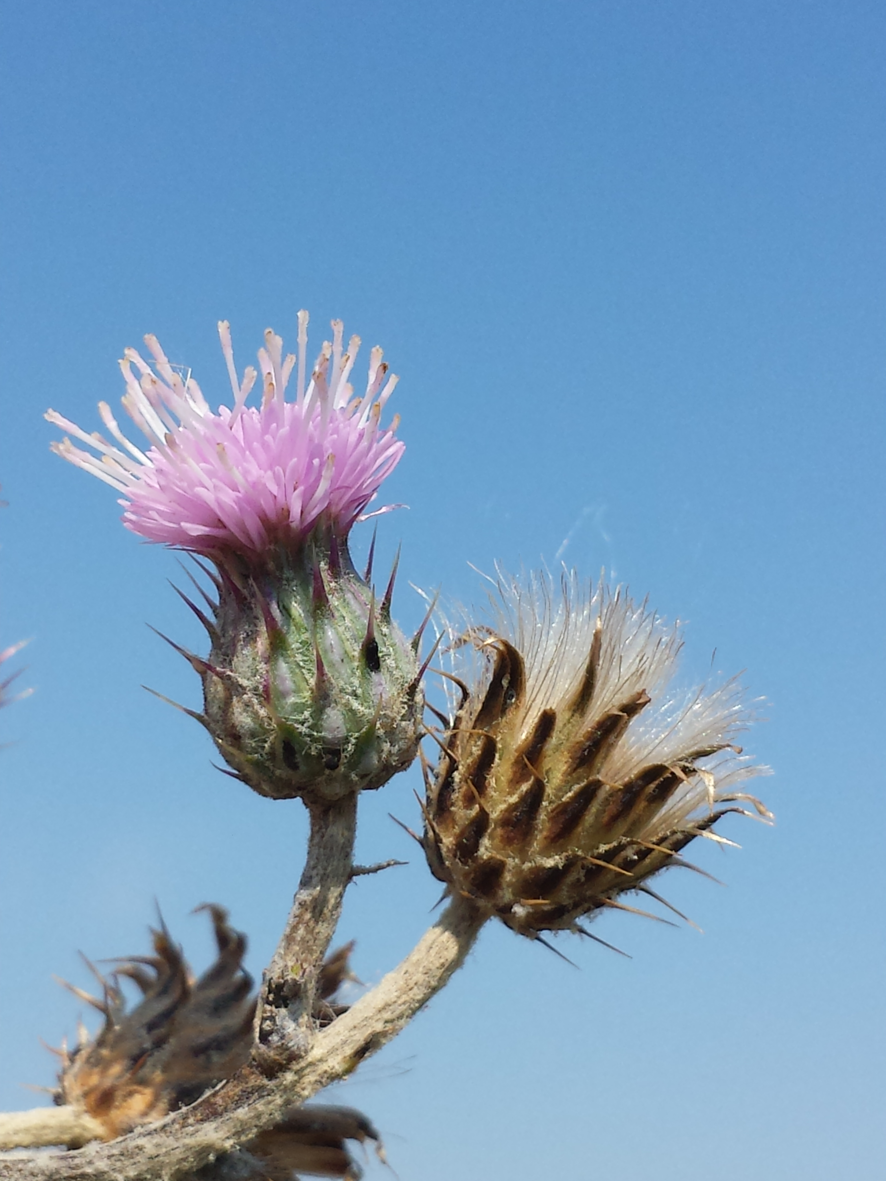 Capitula Taxonym: Cirsium brachycephalum ss Fischer et al. EfÖLS 2008 ISBN 978-3-85474-187-9 Location: pond near Michelstetten, district Mistelbach, Lower Austria - ca. 250 m a.s.l. Habitat: shore of a pond